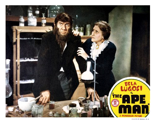 Colored lobby card for the American movie The Ape Man (Monogram, 1943) featuring Bela Lugosi and Minerva Urecal.